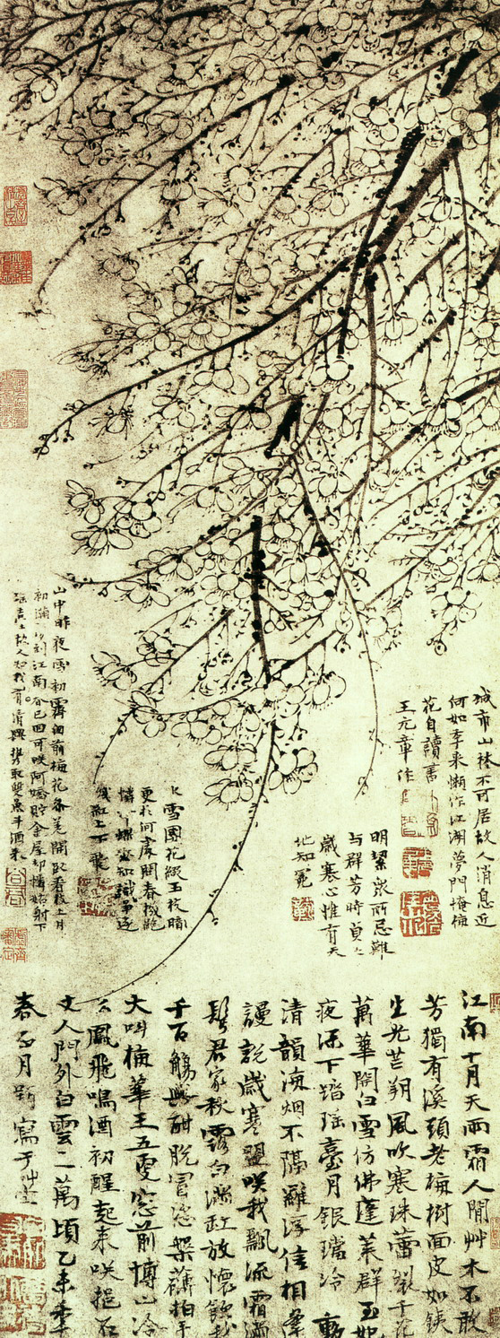 Ink Plum - Scroll, Ink on paper. 67.7 x 25.9 cm. Located in the Shanghai Museum.